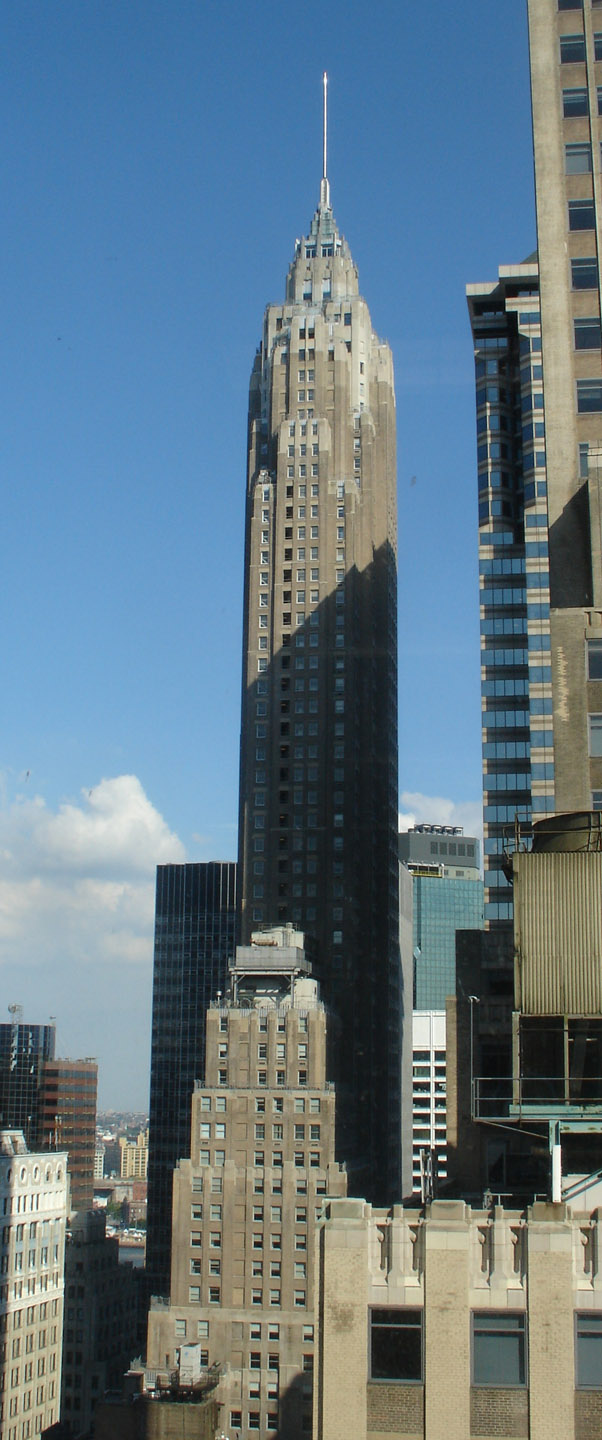 American International Building, New York, New York. Images by Georgi I. Petrov